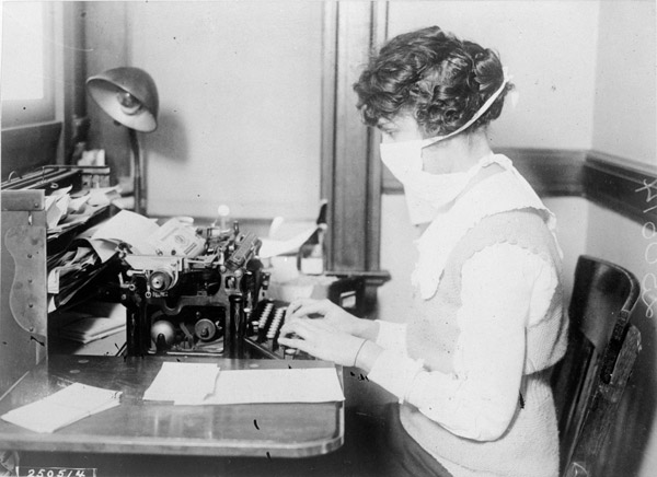 Typist wearing mask, New York City, October 16, 1918, during the "Spanish flu" influenza pandemic. The flu prevented day-to-day operations from going smoothly. Officials advised all persons to wear face masks, even indoors. Many believed that a person could contract the disease by handling documents and equipment. Record held at: National Archives at College Park, MD. Record number 165-WW-269B-16.